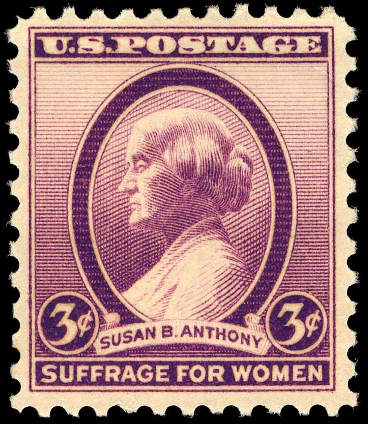 Image of US Postage stamp depicting Susan B. Anthony